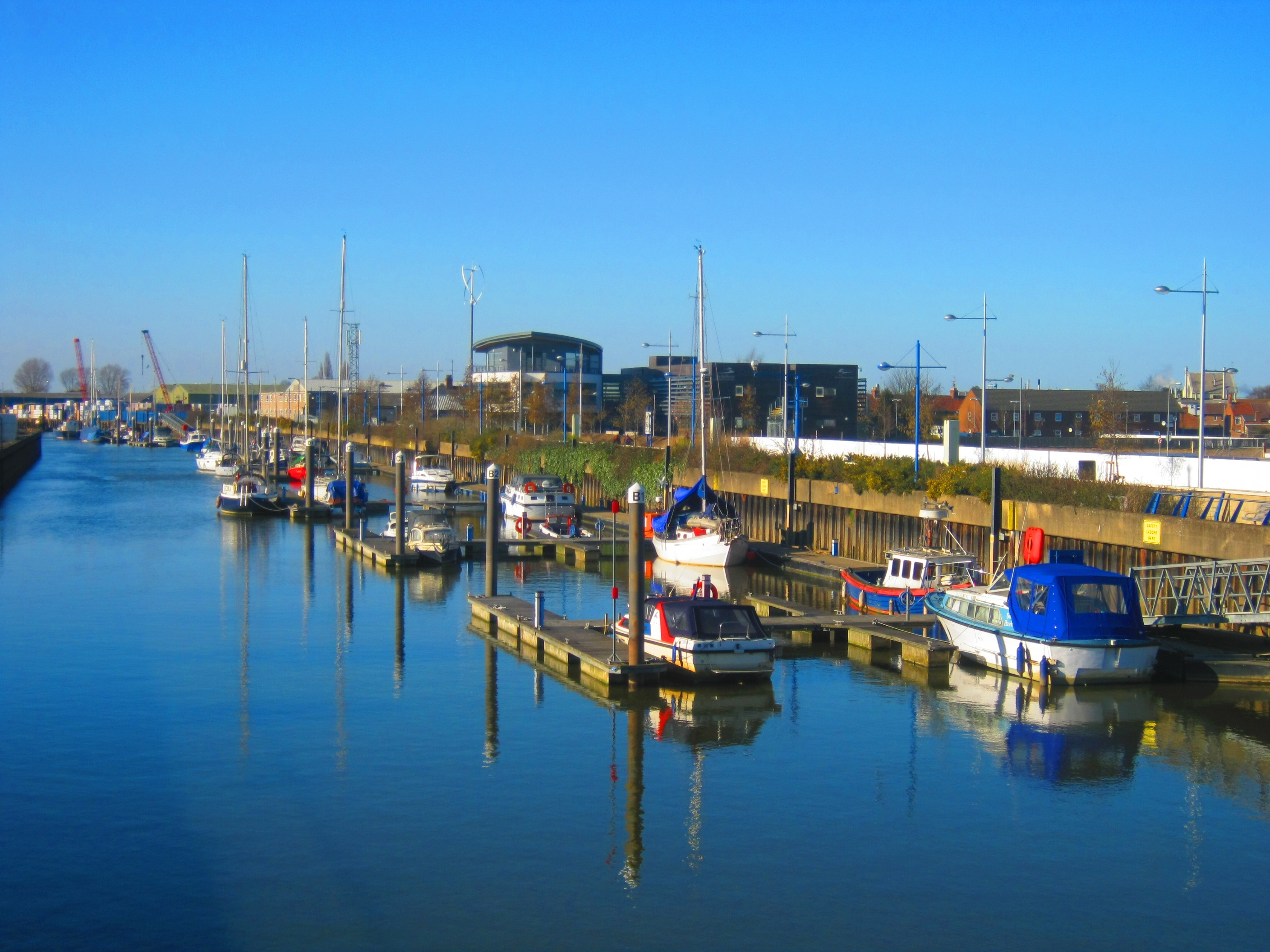 Wisbech port and business centre